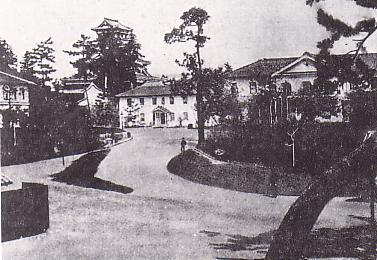 Imperial General Headquarters in Hiroshima